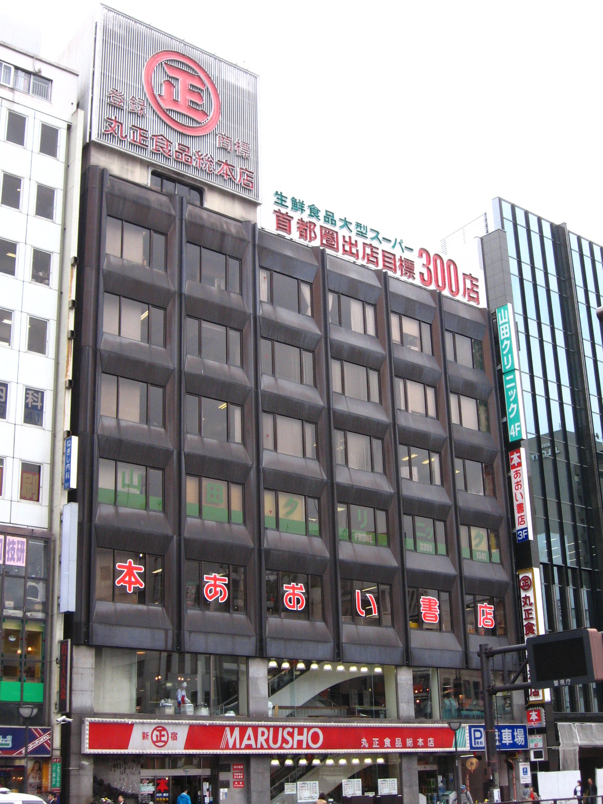 Super store chain "Marusho" Main store. Yotsuya, Shinjuku.